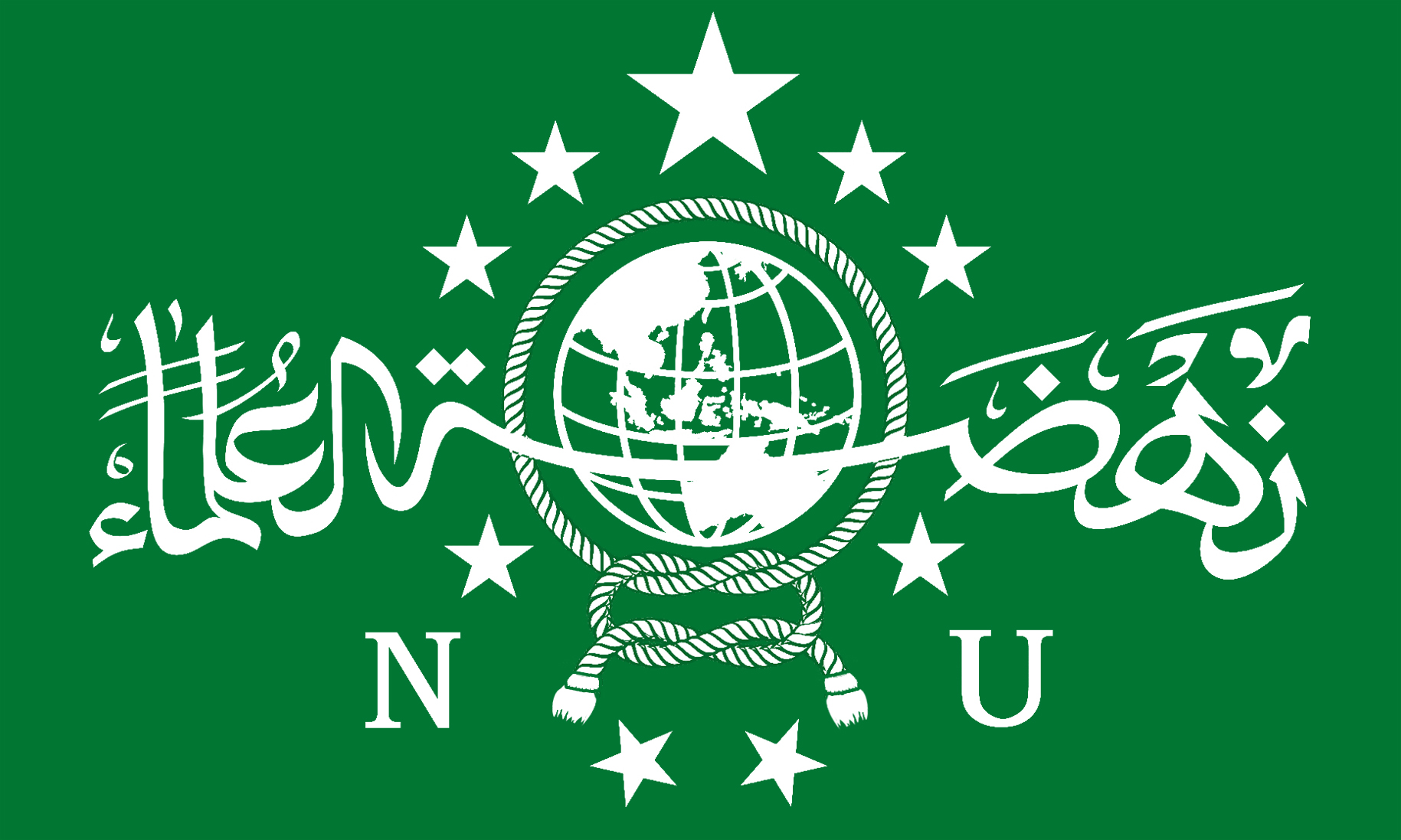 Flag of the Indonesian political organisation Nahdlatul Ulama (NU)